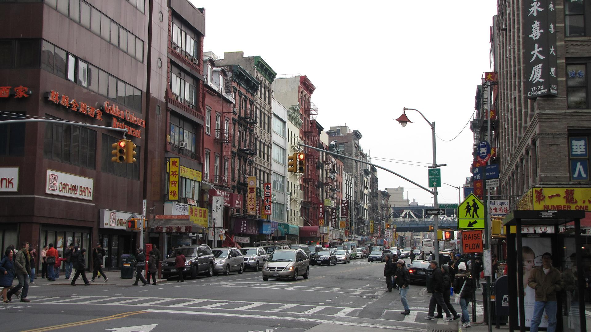 East Broadway Street View